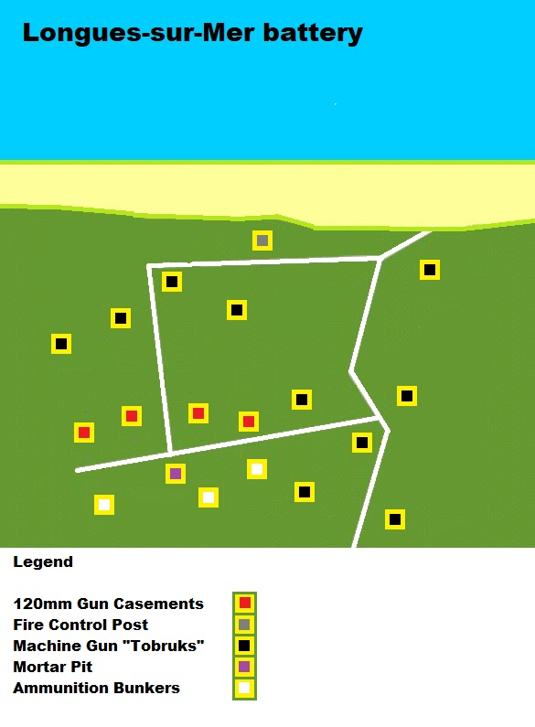 Overhead plan of Longues-sur-Mer gun battery, Normandy with four casements and bunkers, fire control post and defensive machine gun / mortar pits.